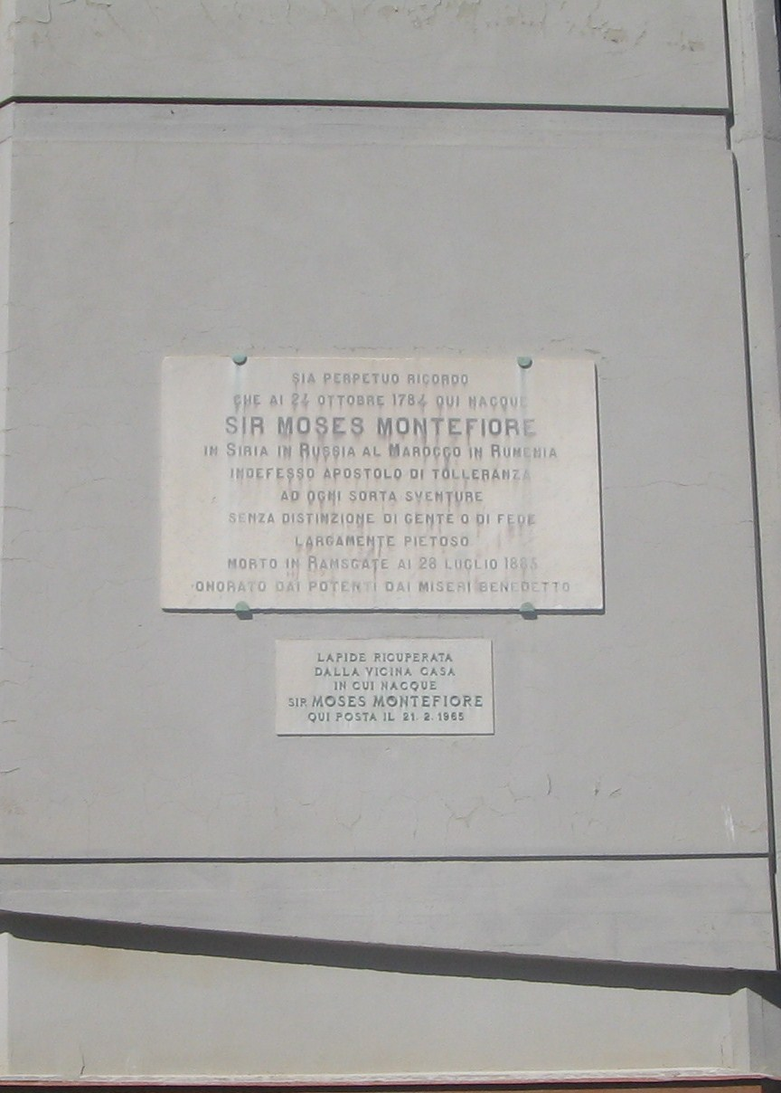 Livorno, Lapide commemorativa Moses Montefiore